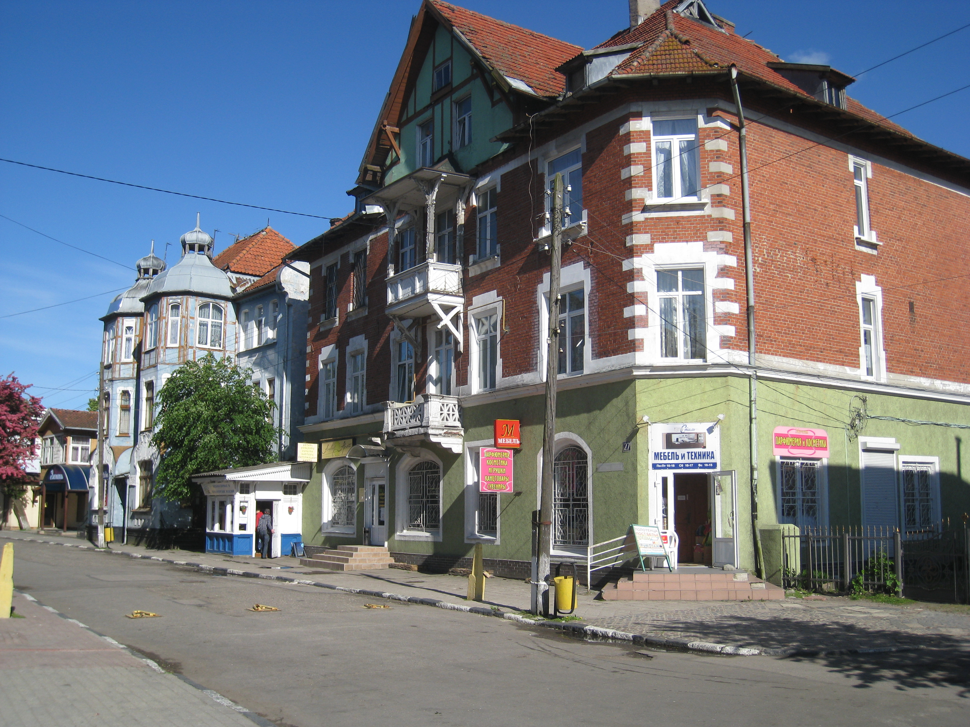 street of Zelenogradsk